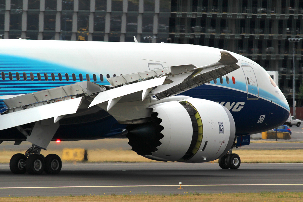 The toothed exhaust-duct covers on a Boeing 787 Dreamliner. This is N787BA, the airframe that made the maiden flight in December 2009.